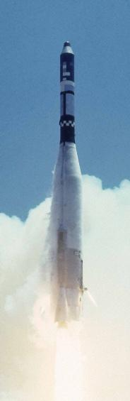 Atlas Agena D launch vehicle with KH-7 01 spy-satellite, Jul. 12 1963